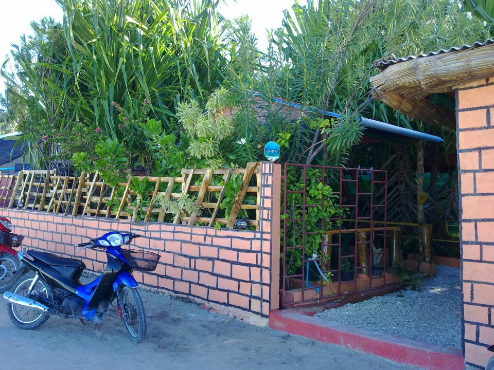 One of the best restaurants at the commercial harbour in Ukulhas island